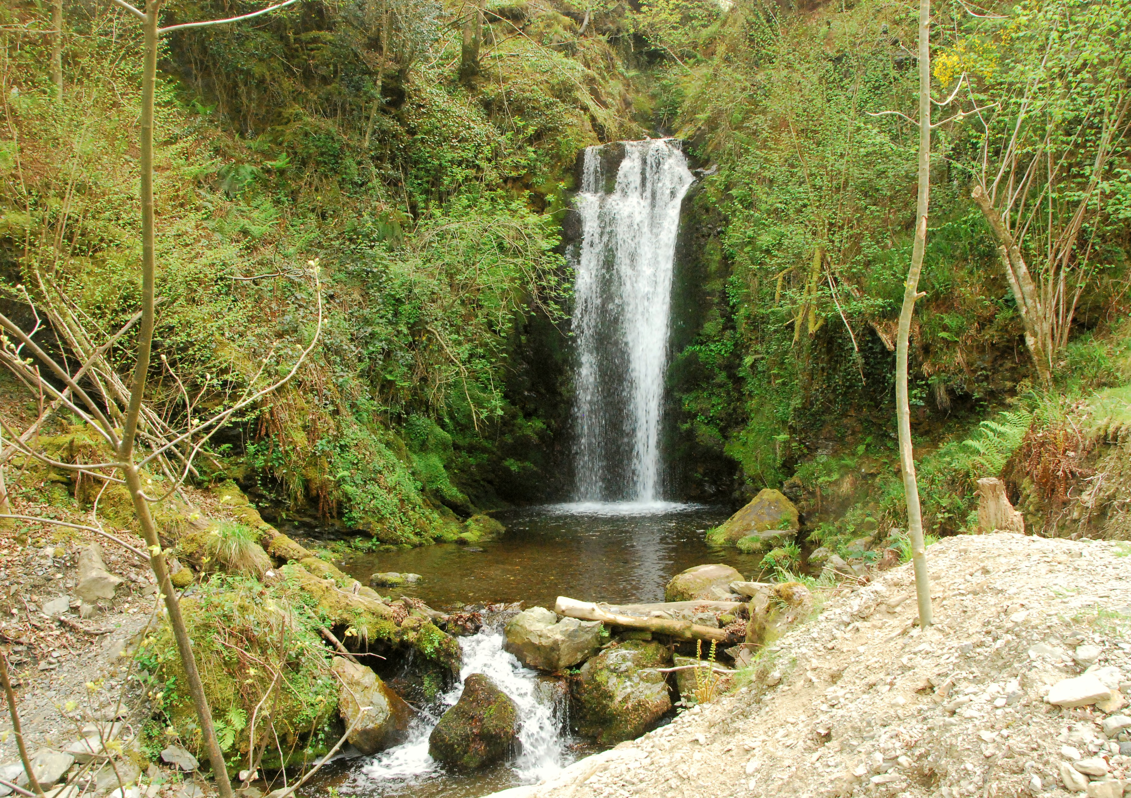 Putzubeltz waterfall in Arantza (Navarre)